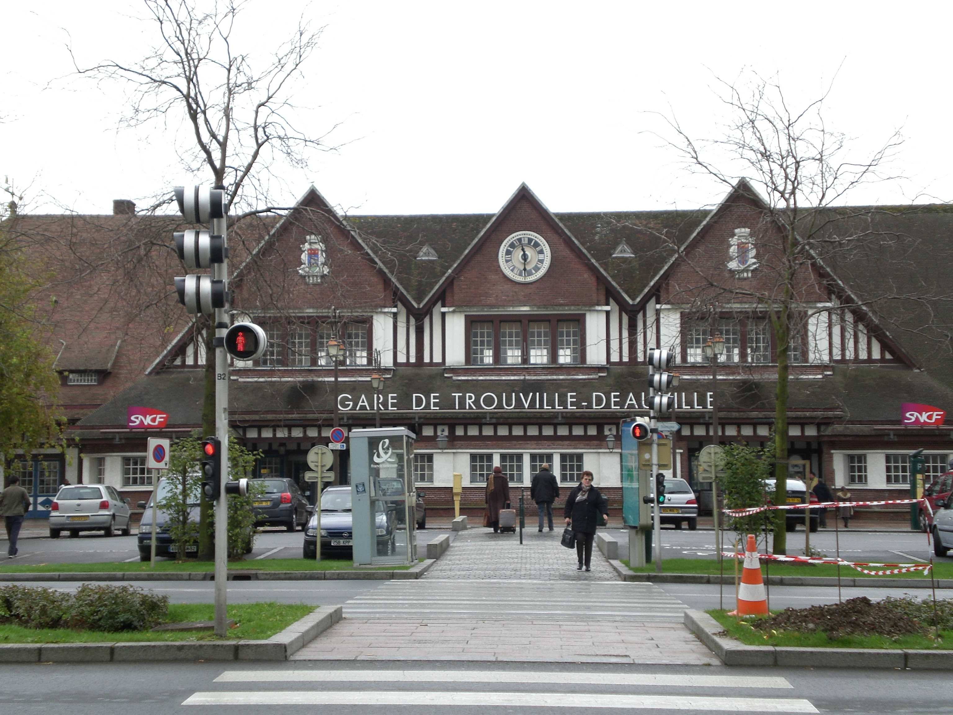 Train Station of Deauville and Trouville, Calvados, France